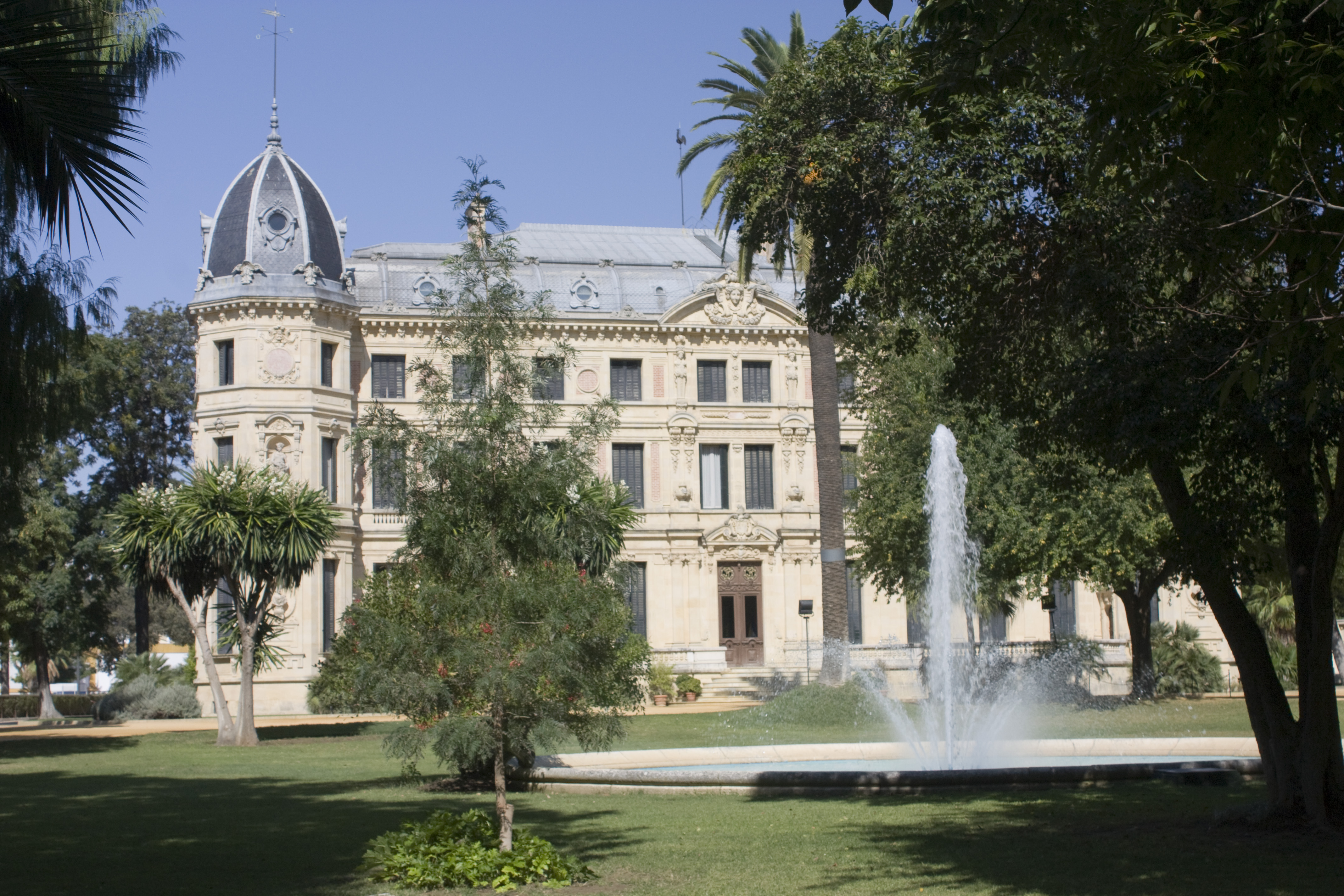 Palace of the Duke of Abrantes, the headquarters of the dressage school founded by Alvaro Domec.